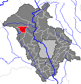 This map shows the area of the Gemeinde (municipality) Großstübing in the Bezirk (district) Graz-Umgebung, Styria, Austria.